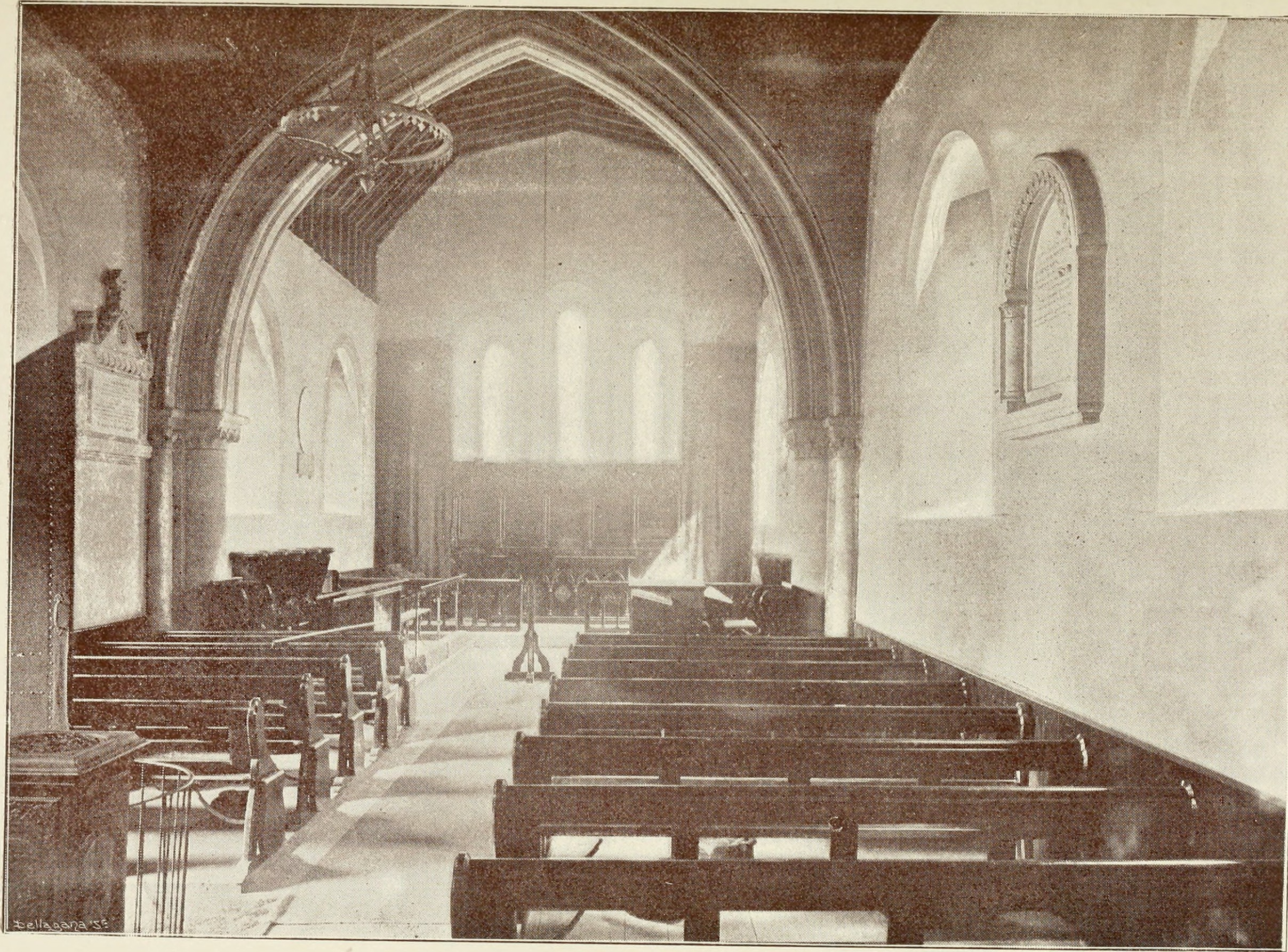 Inside God's House Chapel, now St Julien's Church, Southampton, Hampshire, looking east toward the chancel. Date of photograph unknown but no later than 19th Century. Derived from public domain image from Internet Archive Book Library; Image from page 24 of "A brief and popular history of the Hospital of God's House, Southampton" (1894)